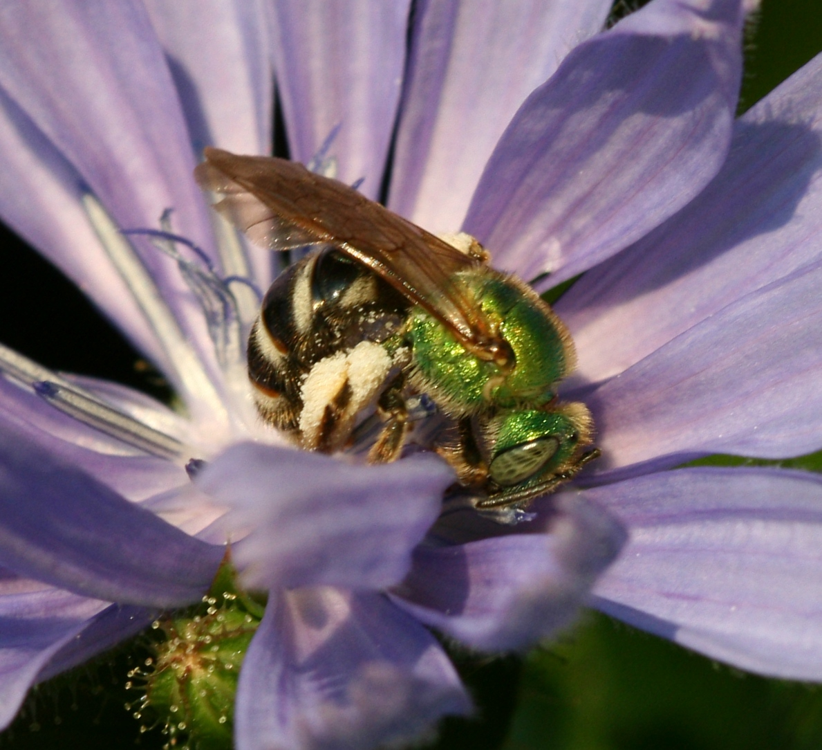 Niagara-on-the-Lake, Ontario, Canada